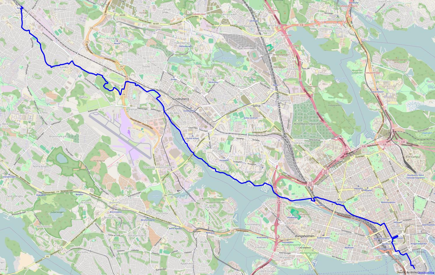 The Spångastråket hiking trail in Stockholm, Sweden.